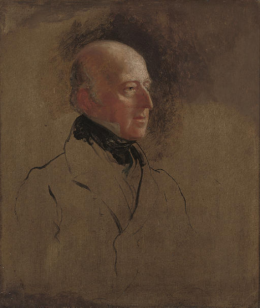 Admiral Sir Edward Codrington G.C.B., K.S.L., K.S.G. MP for Devonport, study for House of Commons picture 1836